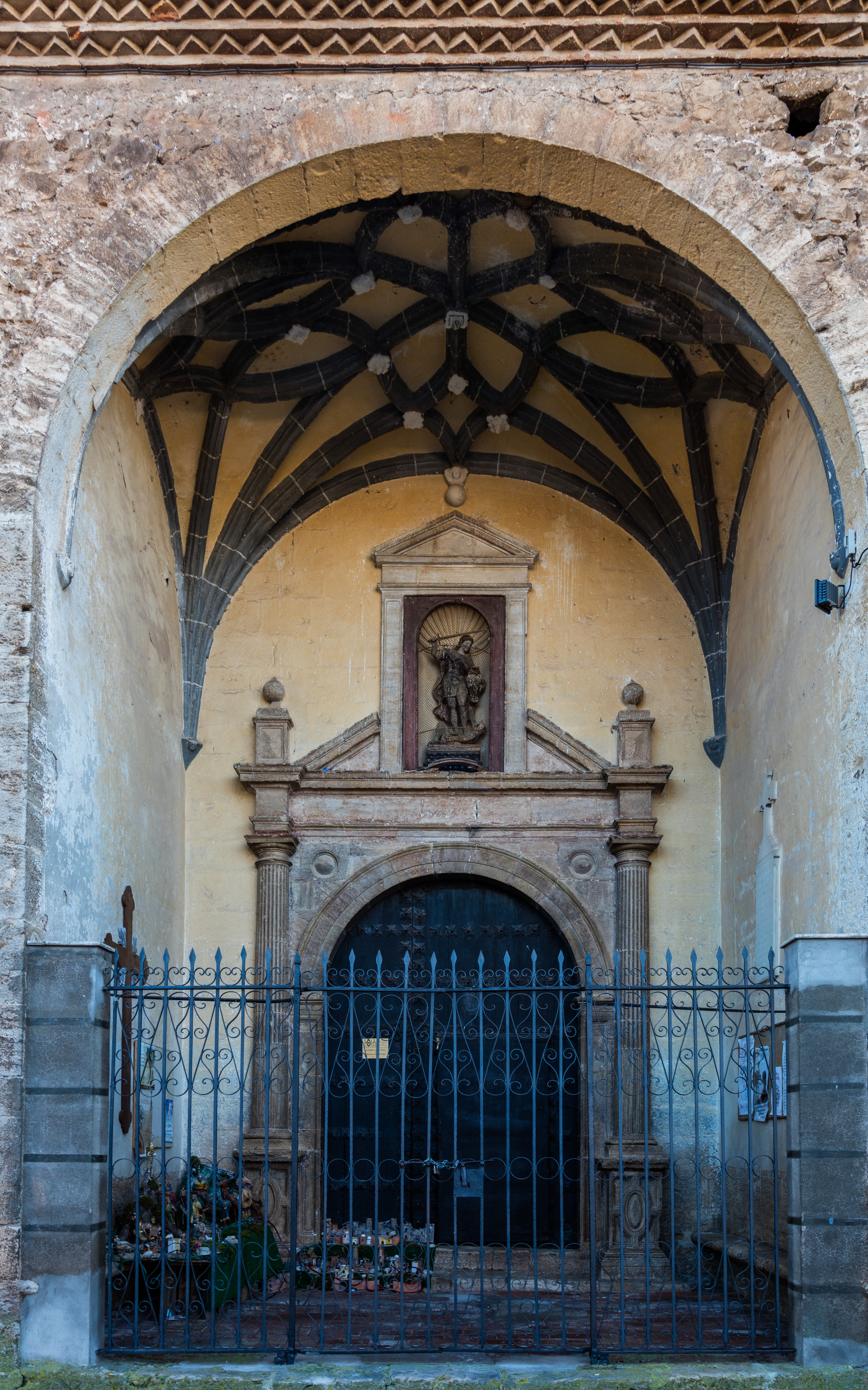 Church of San Miguel, Belmonte de Gracián, Zaragoza, Spain